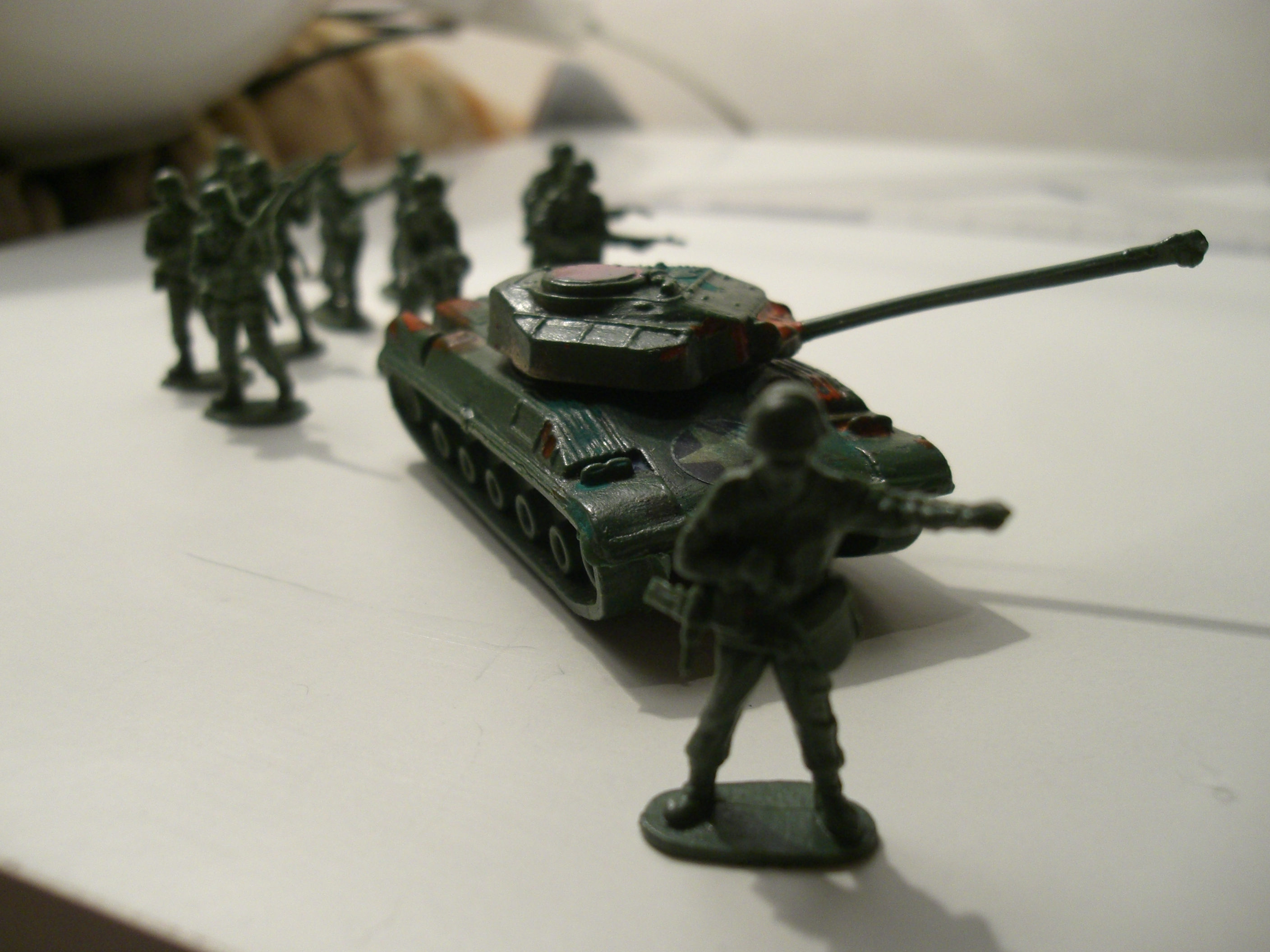 Plastic soldiers - probe patrol with tank.